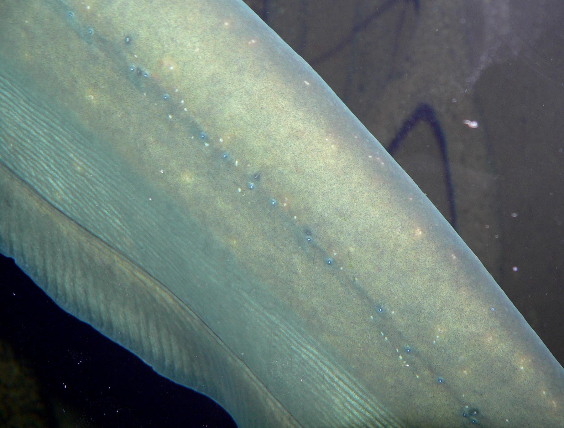 Photo of Electrophorus electricus (electric eel) body at the Vancouver Aquarium